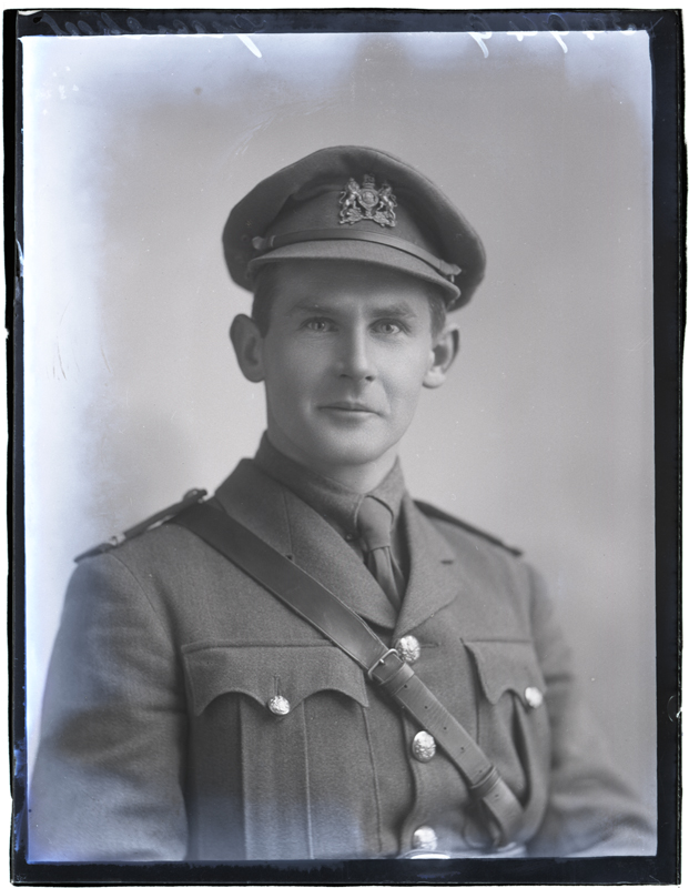 Read our blog about Lionel Greenstreet goo.gl/DvWfn1 DKW_34949_Greenstreet_L